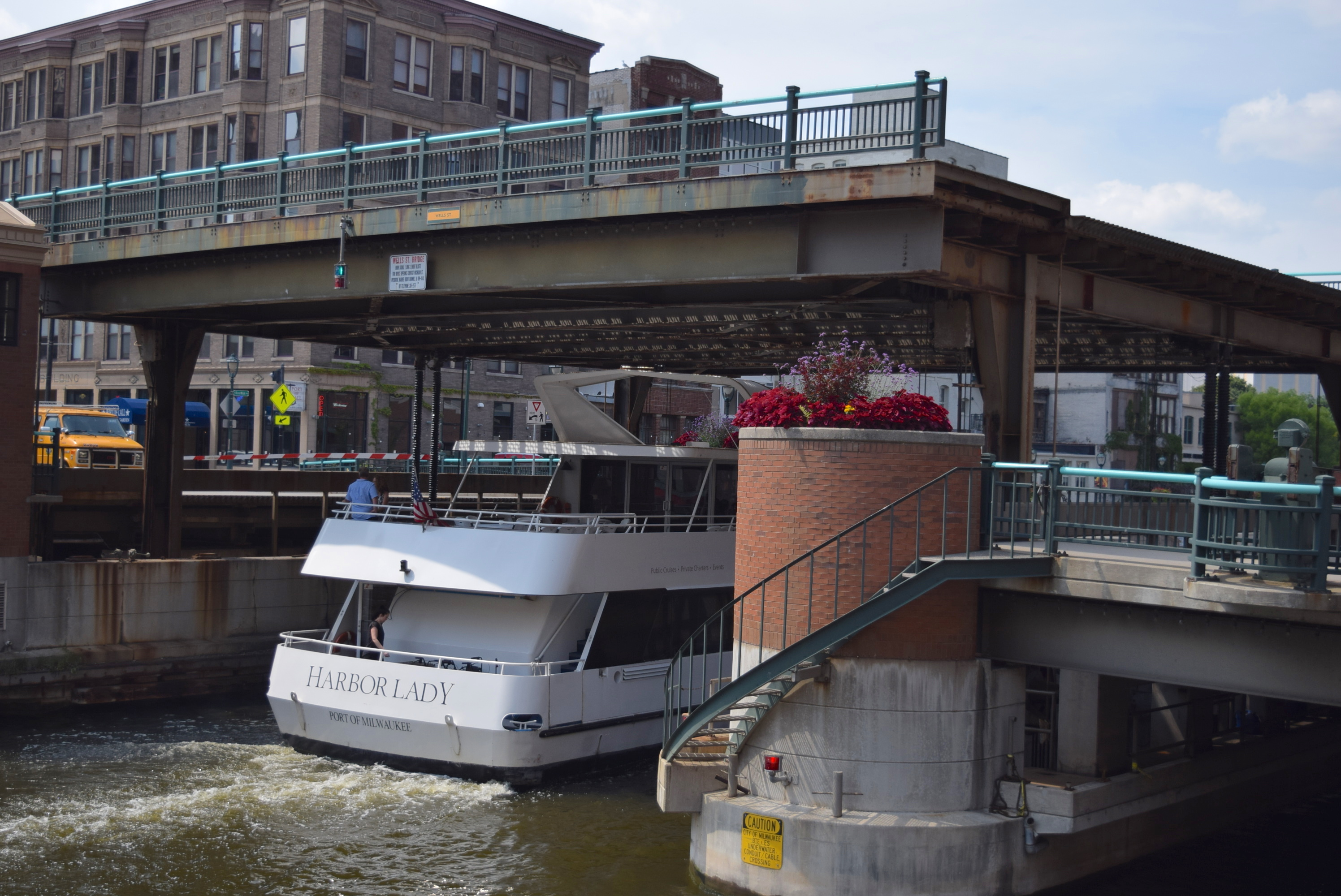 The Wells Street Bridge in Milwaukee fully raised to allow the Harbor Lady, a river cruise boat, to pass.